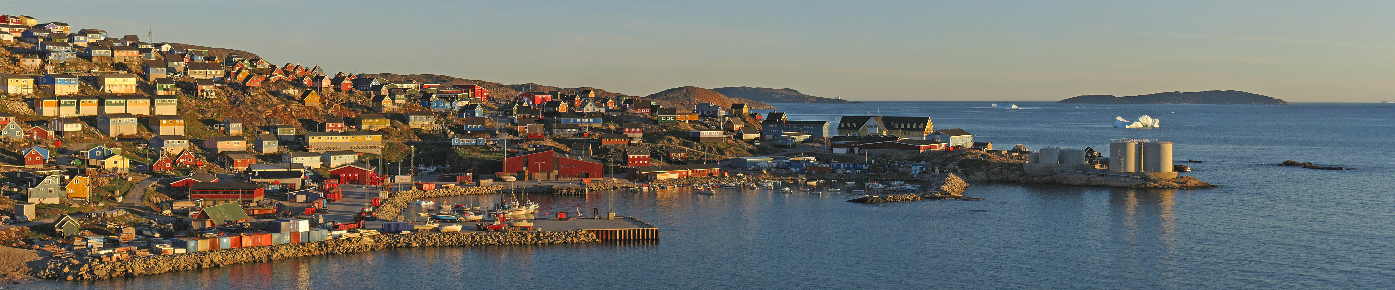 Evening panorama of the north-western part of the town Upernavik in Greenland. The viewpoint is a cliff near the soccer field with a south-western heading. The image has been generated using Hugin based on 21 individual photos taken at max zoom in two rows. 5. Vignetting has been minimized using a best fit polynomial in Hugin. The output image from Hugin has been rectangularly cropped to a pixel height of +1900 followed by a slight increase of lightness and saturation. Hereafter resampled to a pixel height of 1500 using a cubic spline interpolation. Finally, the image was Smart Sharpened using GIMP with a pixel radius of 1.0 and an amount of 1.0. Jjron has subsequently improved the lightning in the shadowy parts of the image and further downsampled the image to a pixel height of 1000 px to reduce noise.